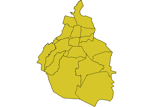 Boroughs of the Mexican Federal District. I release this image into the public domain. This map is a redraw based on a map by INEGI. -- Rune Welsh